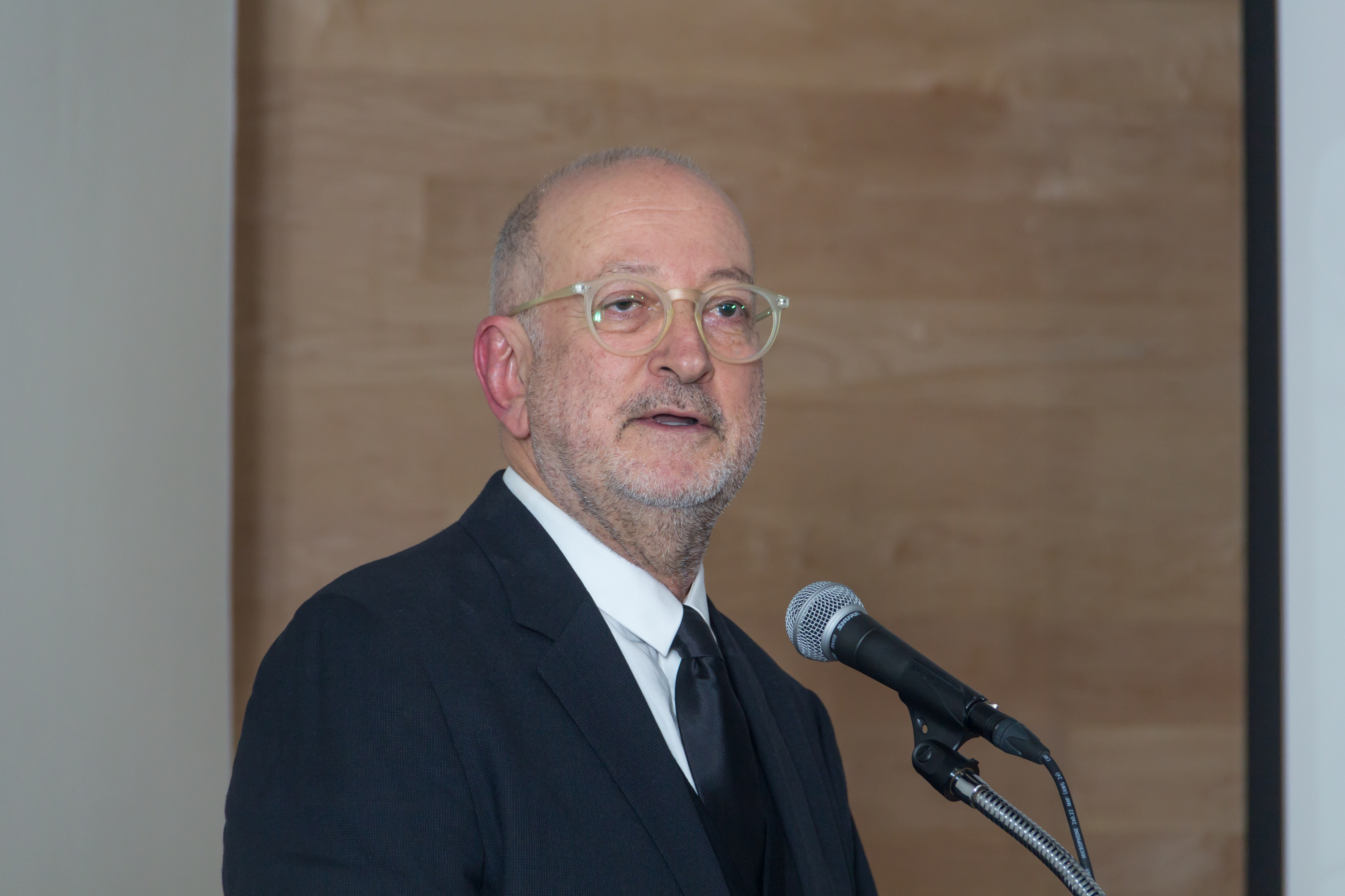 Enrique Norten giving his acceptance speech of the National Medal of the Arts 2018